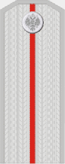 Есаул (Погон реестрового казачества России)